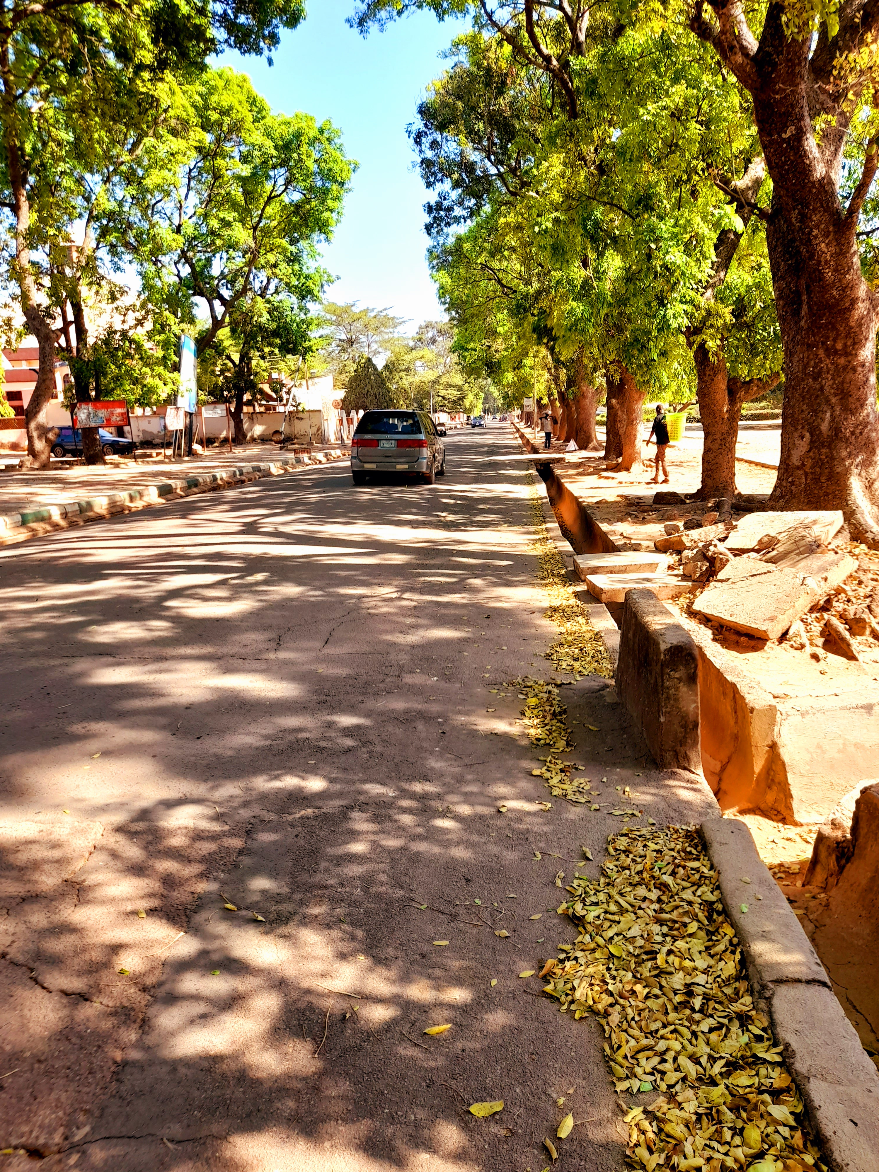 Vasyl Danylchuk. A book illustration (1966)